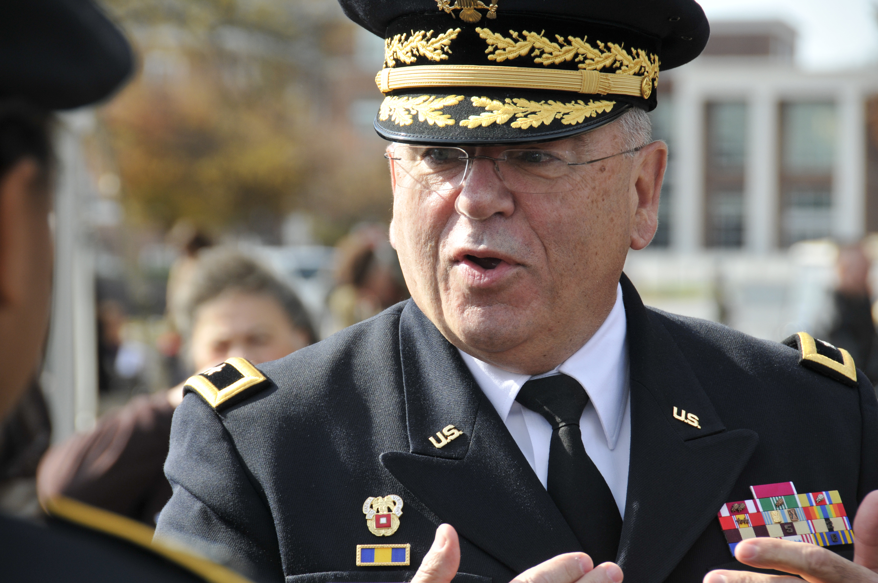 U.S. Army Maj. Gen. Frank Vavala, adjutant general of the Delaware National Guard, speaks with members of the 287th Army Band, Delaware National Guard, before the dedication of a World War II memorial at Legislative Hall in Dover, Del., Nov. 9, 2013. (U.S. Army National Guard photo by Staff Sgt. Brendan Mackie/Released)